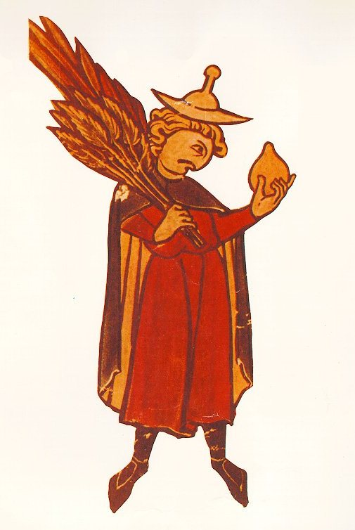 Detail of medieval Hebrew calendar